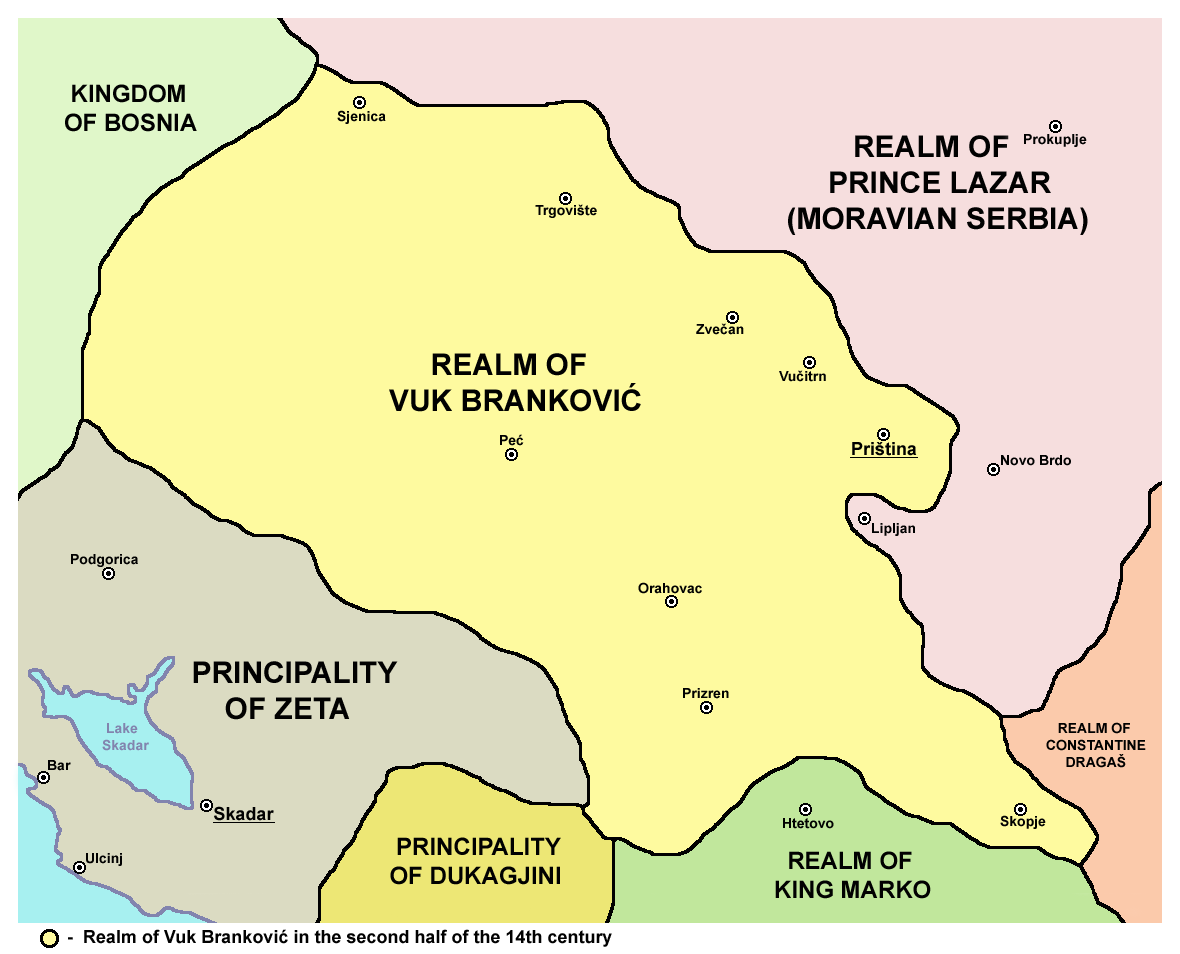 Realm of Branković was one of the states that emerged from the collapse of the Serbian Empire in the 14th century.Oblast Brankovića, jedna od država nastalih raspadom Srpskog carstva u 14. veku.